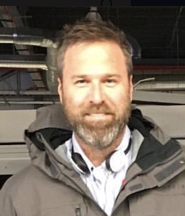 photo taken on the set of Sicario, of Basil Iwanyk.